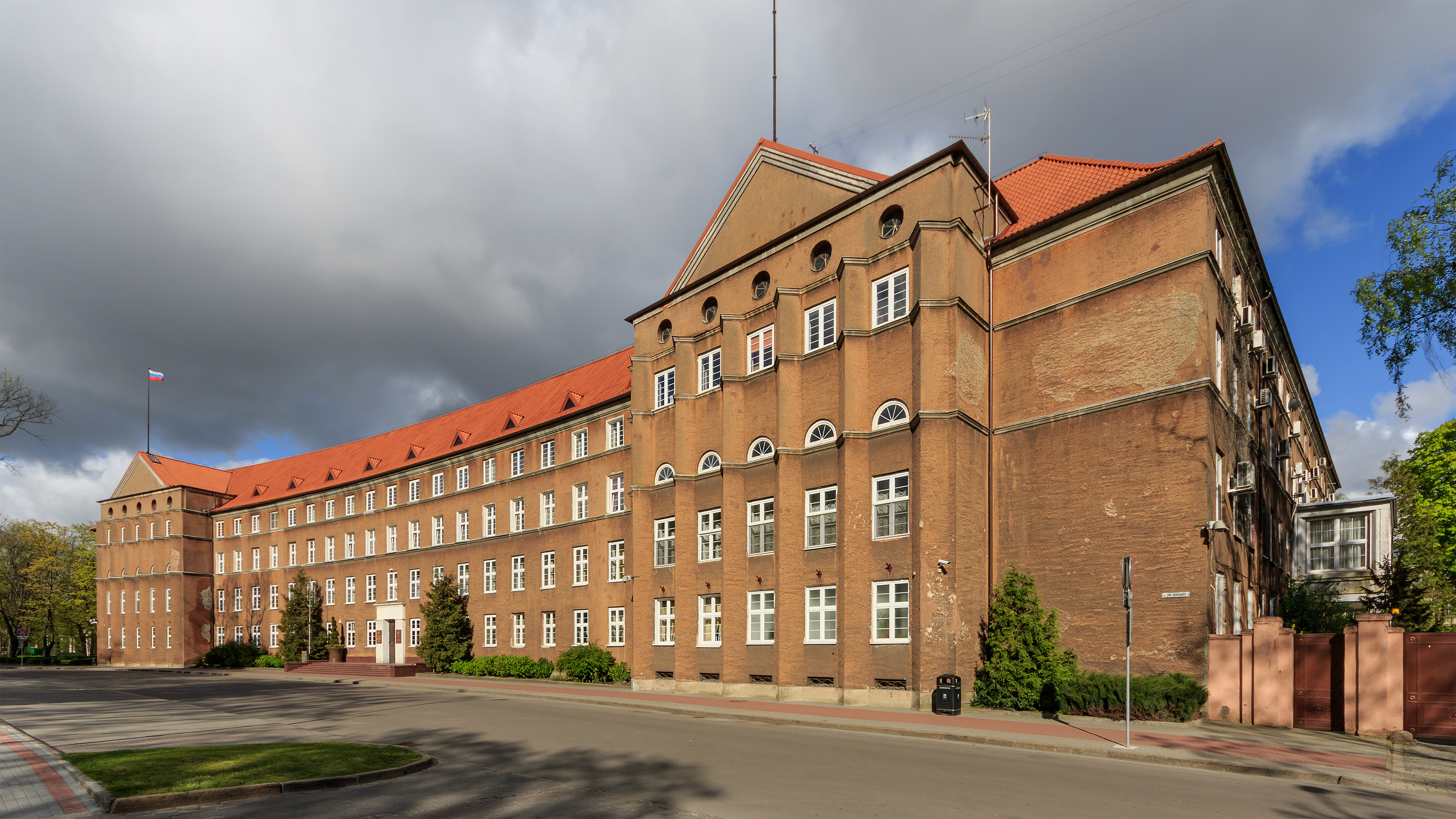 Former building of East Prussian financial administration in Kaliningrad formerly Königsberg, Kaliningrad Oblast (Russia).